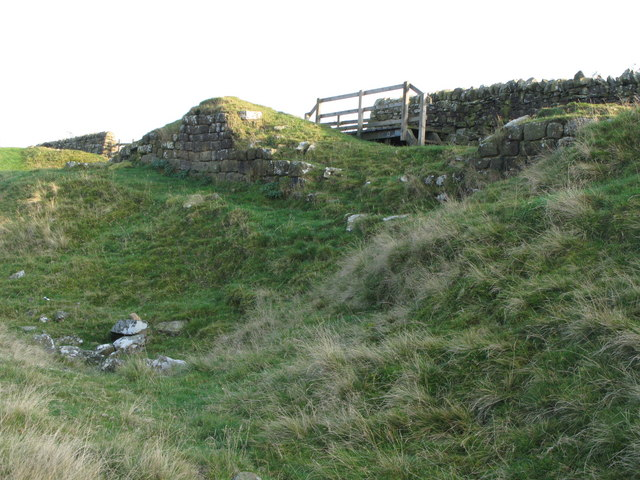 (All that remains of) Milecastle 33